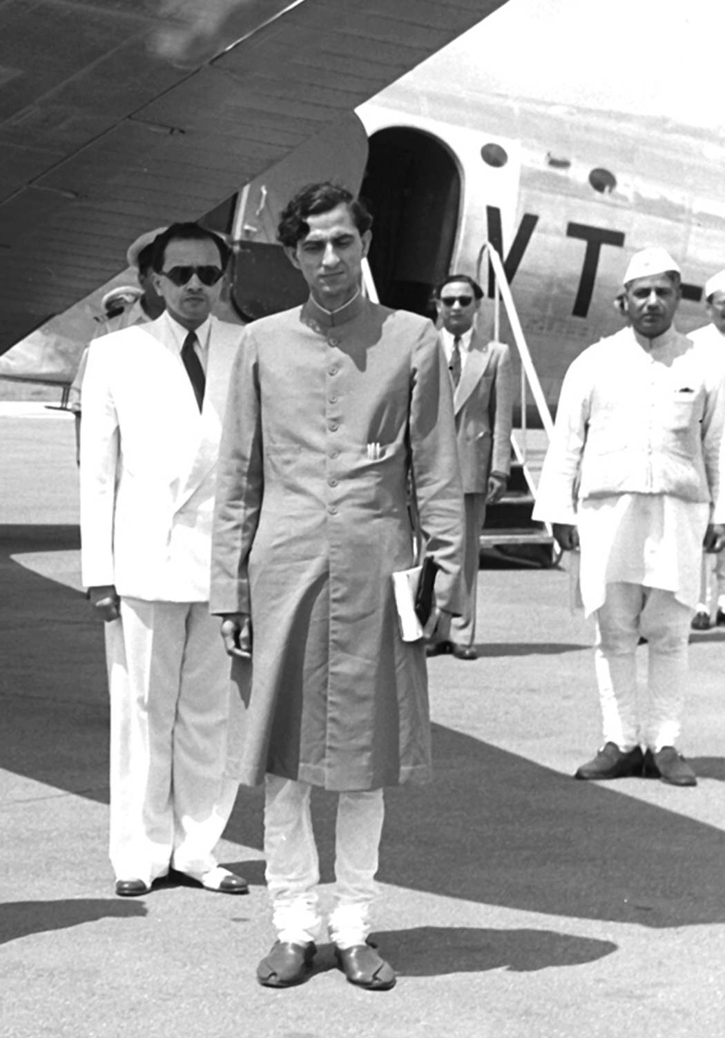 Nepalese Home Minister B. P. Koirala in New Delhi, India in 1951.